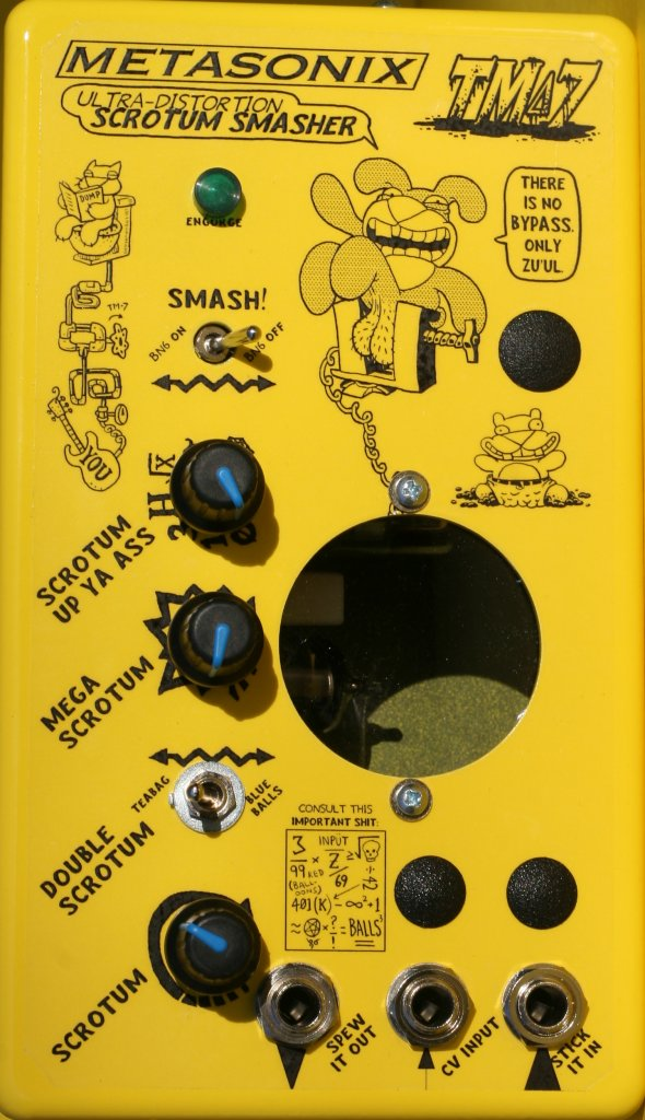 This is the Metasonix TM-7 "Scrotum Smasher". An extreme distortion circuit made of vacuum tubes. I designed this product, I manufacture this product. I own the rights to the photo.